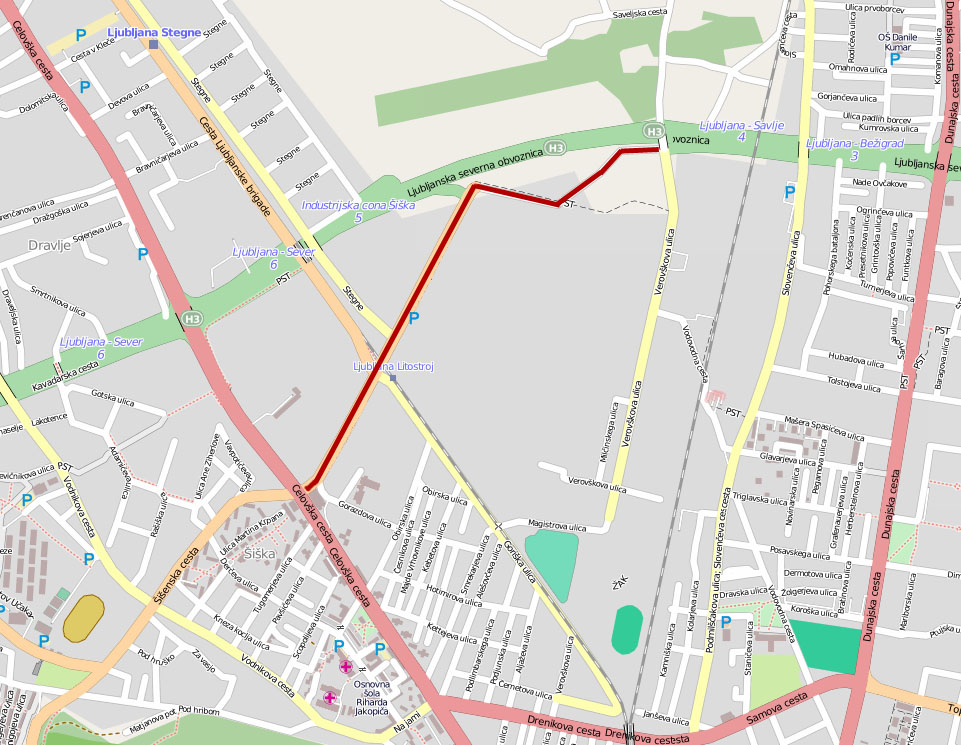 Map of the Litostrojska st., Ljubljana